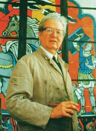 the artist in front one of his church windows